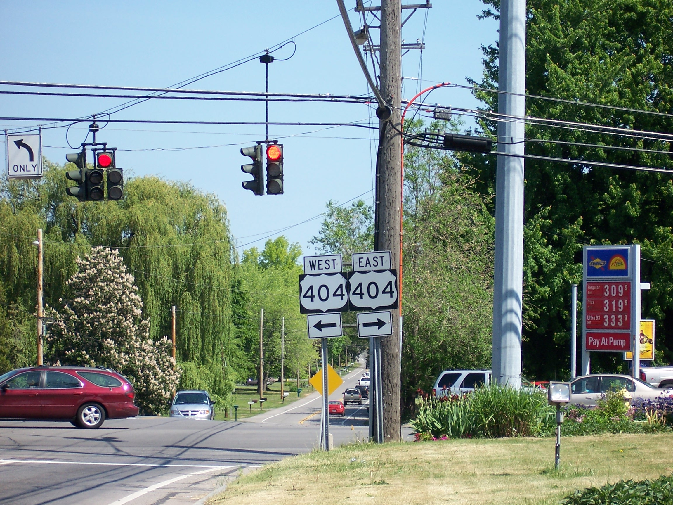 Directional signs for New York State Route 404 in Webster, New York. This sign assembly is at the intersection with Five Mile Line Road, facing north. What's notable about this assembly is that the State Route 404 shields use the shield outline for U.S. Routes, rather than the normal New York State Route shield outline. While what is now Route 404 was once designated U.S. Route 104, there never has been a U.S. Route 404.